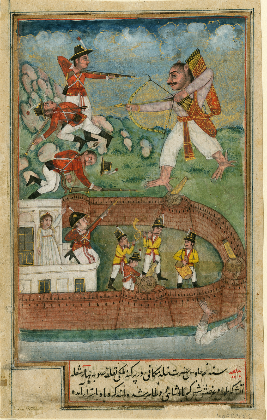 This unsigned watercolor by an unknown Indian artist depicts the events of the Third Mysore War (1790-92). The Anglo-Mysore wars were a series of conflicts in the late 18th century that were fought between the Kingdom of Mysore, located in southwestern India, and the British East India Company. After victories in the first two wars, Mysore, led by Tipu Sultan, invaded the nearby coastal state of Travancore, which was a British ally. This led to the Third Mysore War, which the British won. Although the royal family of Mysore was Hindu, Tipu Sultan was Muslim, which may explain the presence of the Arabic inscription on the bottom of the work. The watercolor is from the Anne S.K. Brown Military Collection at the Brown University Library, the foremost American collection devoted to the history and iconography of soldiers and soldiering, and one of the world’s largest collections devoted to the study of military and naval uniforms. Battles in art; India -- History -- Mysore War, 1790-1792; Soldiers; Supernatural in art